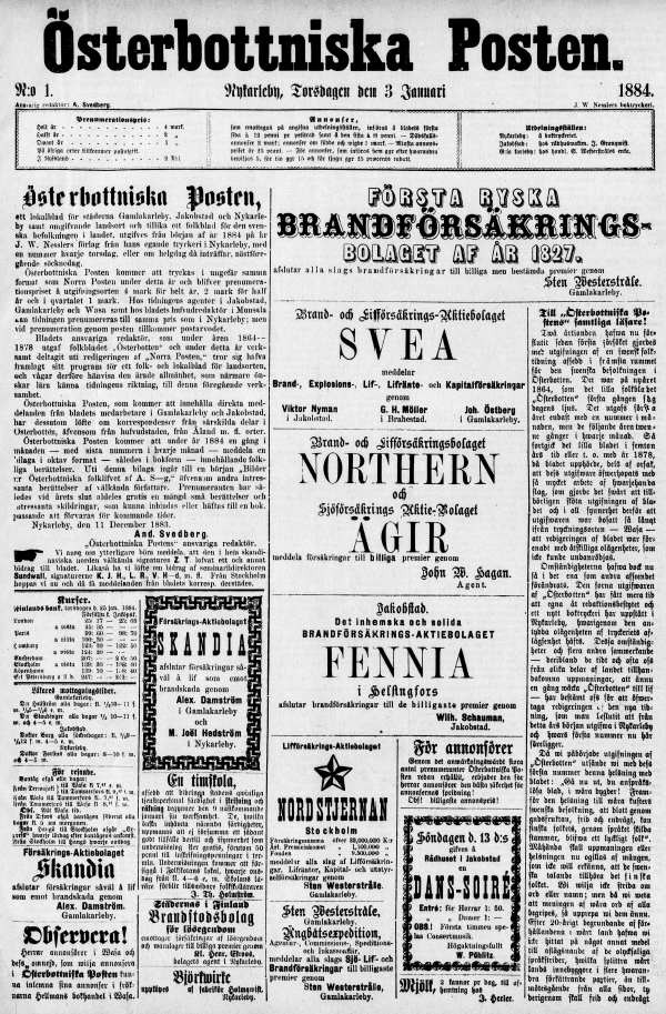 Front page of first issue of the newspaper Österbottniska Posten in Nykarleby, Finland.